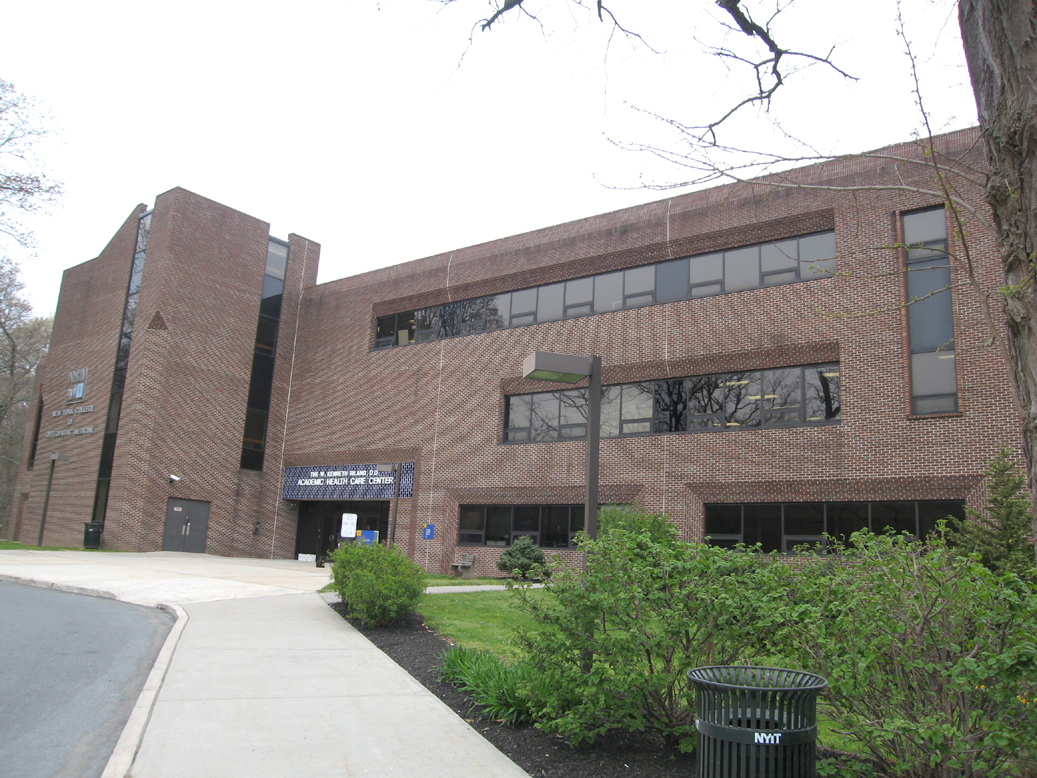 New York Institute of Technology College of Osteopathic Medicine: W. Kenneth Riland, D.O. Academic Health Care Center: Housing the primary care clinic, study rooms, cafeteria and Gross Anatomy/Neuroanatomy Laboratories.